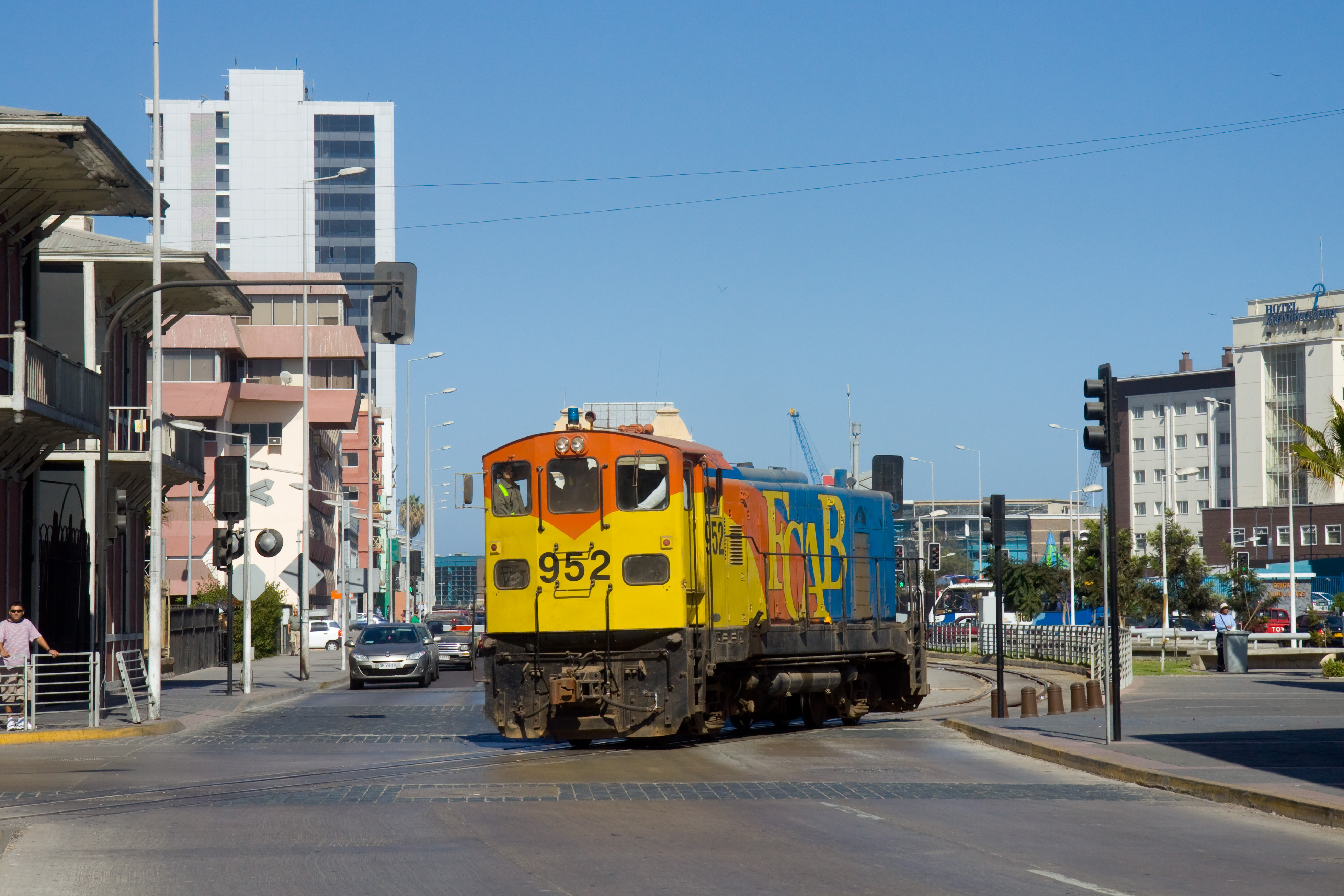 FCAB engine 952 (EMD GA8) is returning empty from the port of Antofagasta, Chile. The picture was taken next to the railway station of Antofagasta and FCAB headquarters.